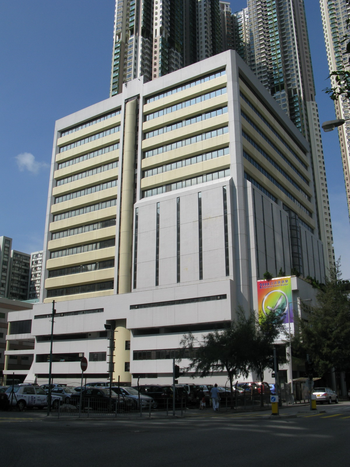 Eastern Law Courts Building (Eastern Magistracy)